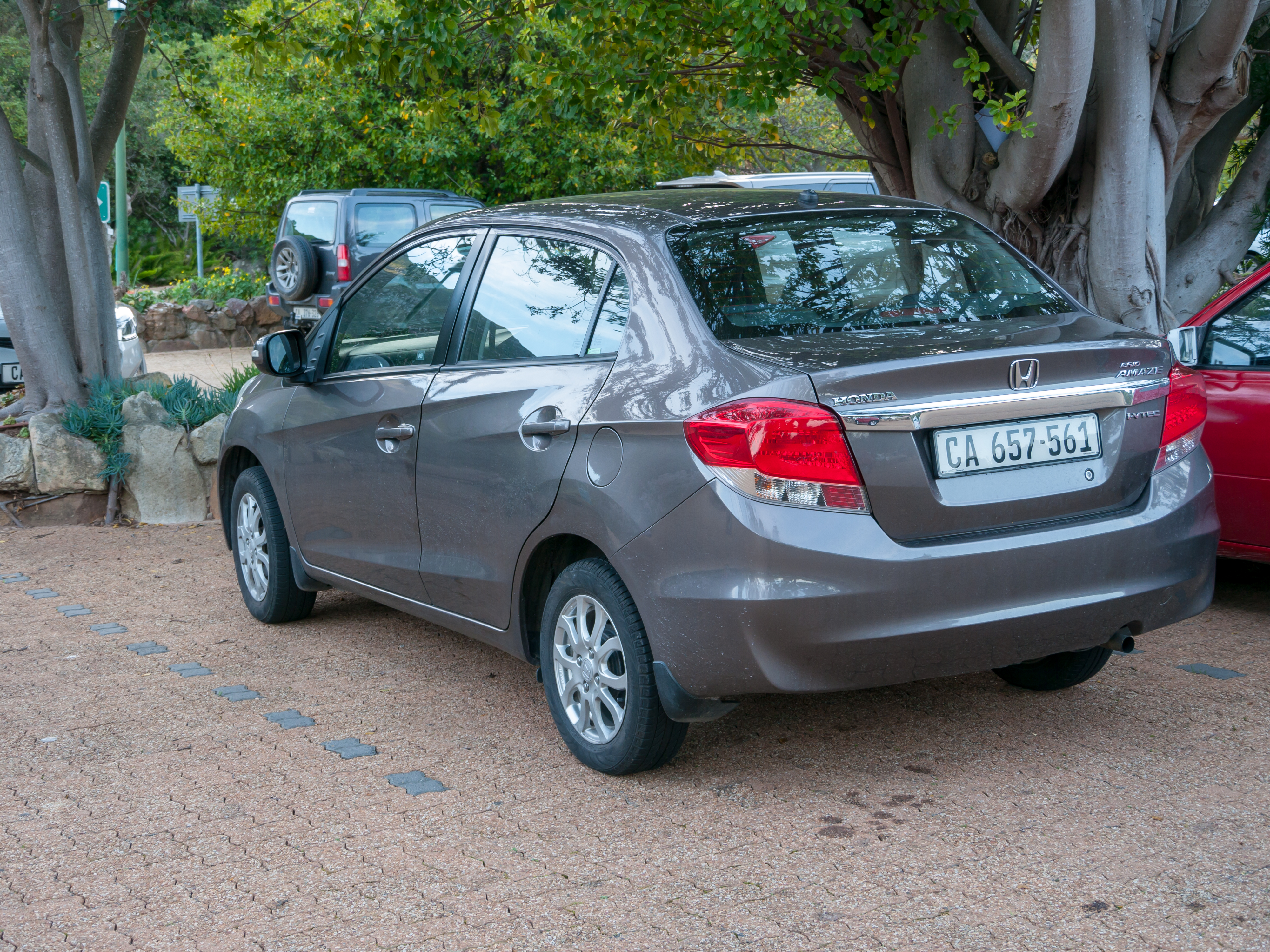 Honda Brio Amaze, Cape Town